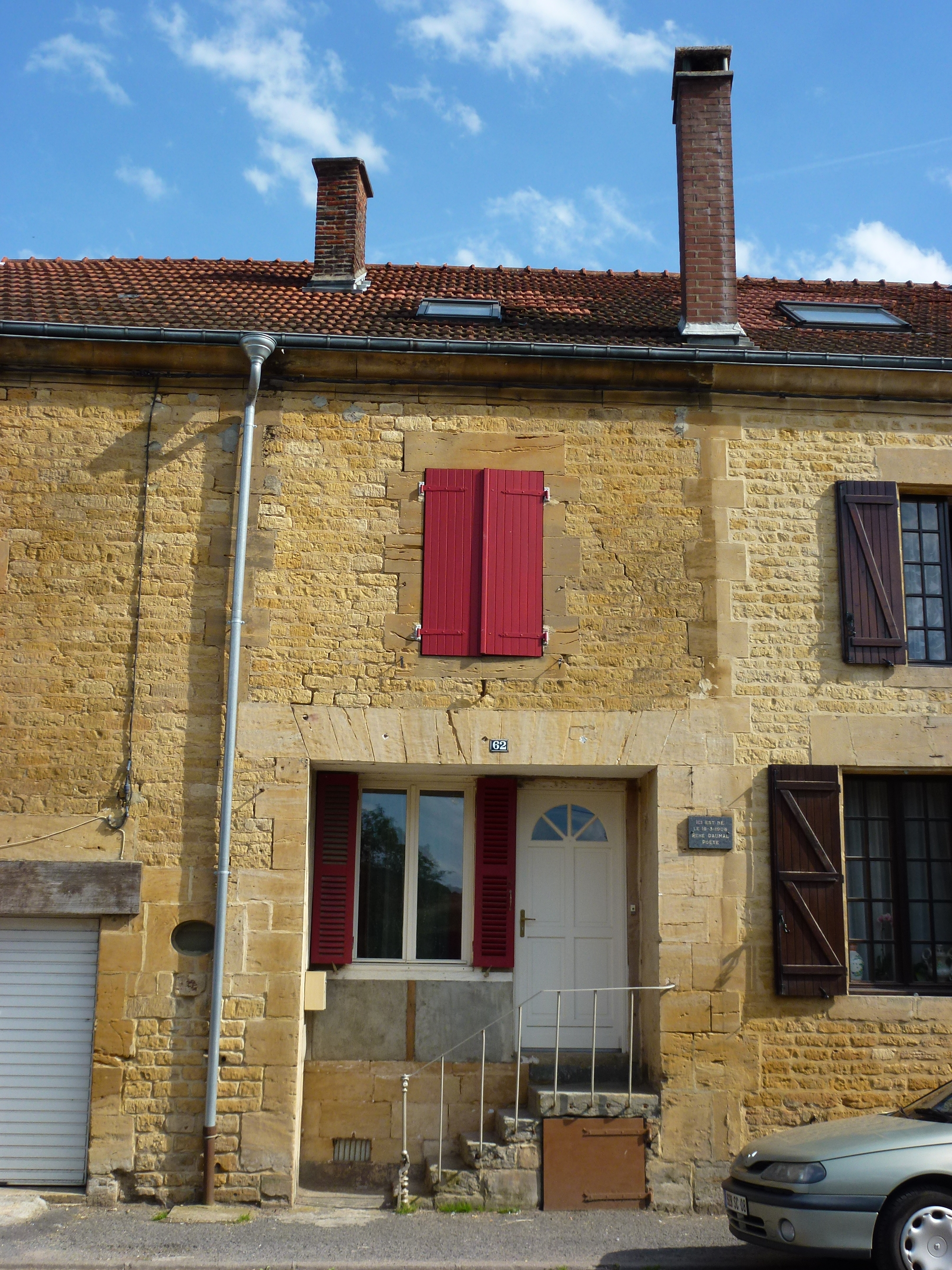 Boulzicourt (Ardennes) maison natale René Daumal